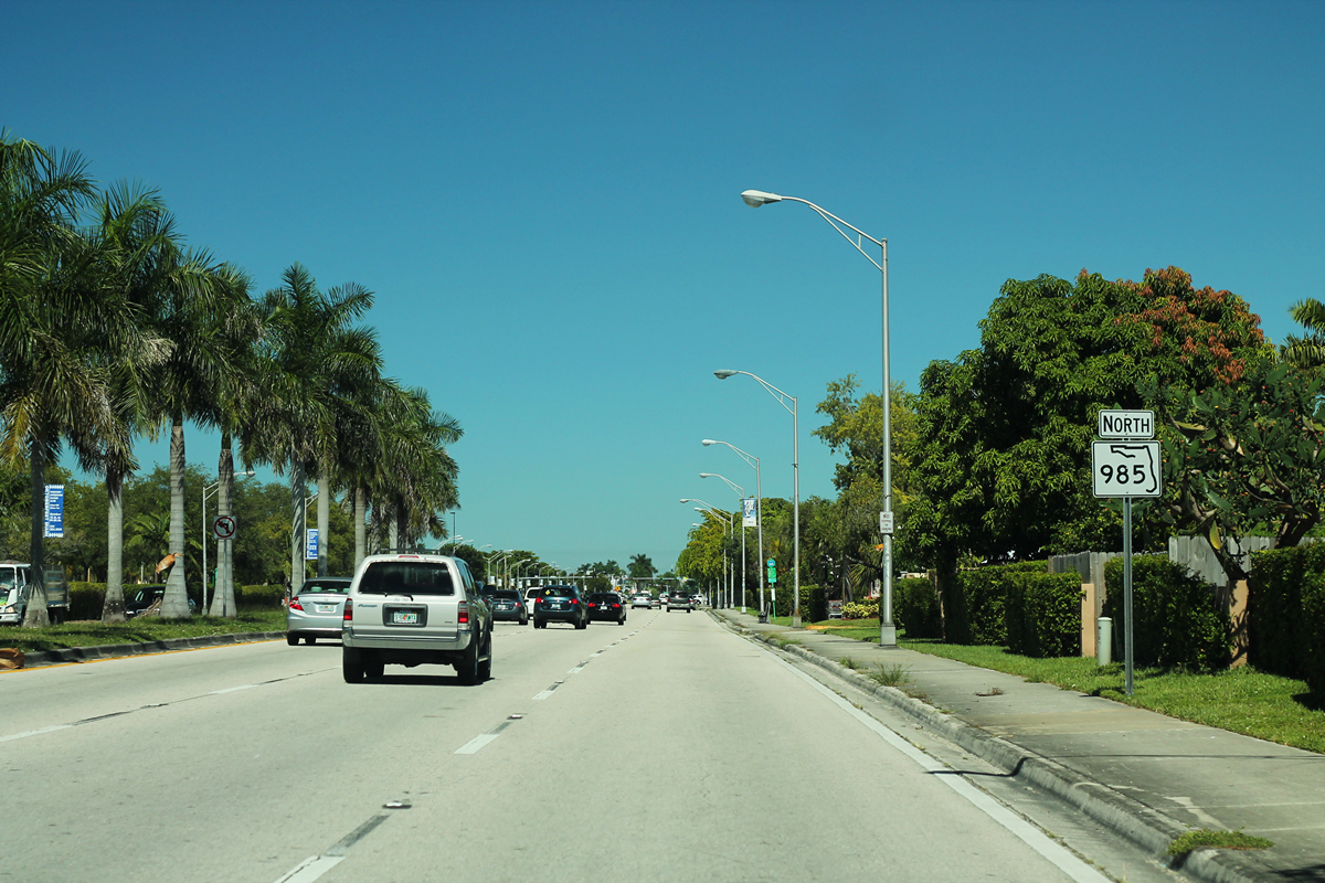 FL985nSignRoad-NearFIU